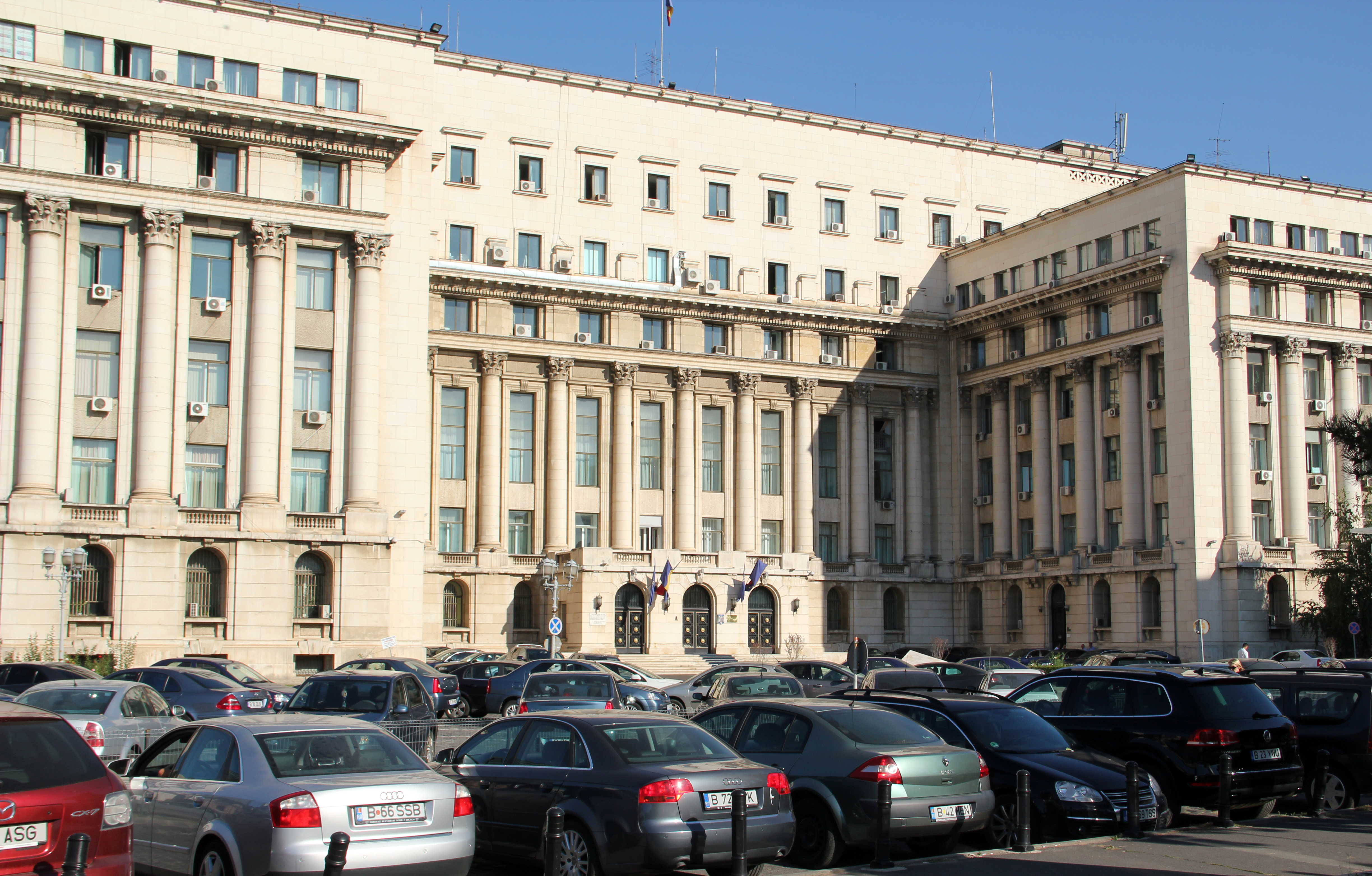 Former Central Committee building of the Romanian Communist Party in Bucharest. " This is where Nicolae Ceausescu gave his final speech before the 1989 revolution began. I was amazed how low the balcony was - quite close to the crowds. As you can see, outside has now been turned into a car park, and there is a small memorial to the people killed during the revolution." Video link